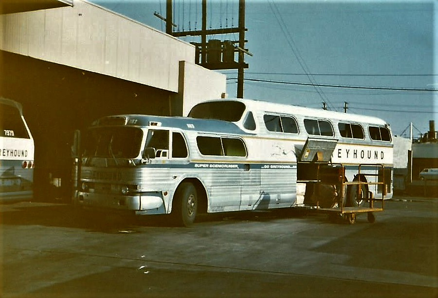 One of the notorious General Motors PD-4501 Super Scenicruisers (built 1954-56, rebuilt 1961-62 by Marmon-Herrington due to chronic unreliabilty and maintenance problems) at Amarillo, Texas 08/70. I was in the process of changing buses here and little did I realise it at the time but I was photographing my luggage getting transferred to the wrong bus - the first of several times in my travels in North America! Scanned print taken with a Kowa SET.